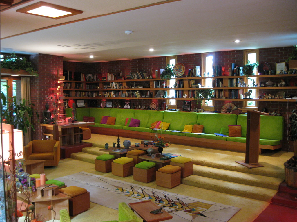 Samara (1956) by Frank Lloyd Wright in West Lafayette, Indiana